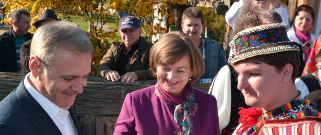 Liviu Dragnea, Deputy Prime Minister of Romania, Aurelia Fedorca, Mayor of Negreşti-Oaş and Noble Ionuţ Silaghi de Oaş in 2015